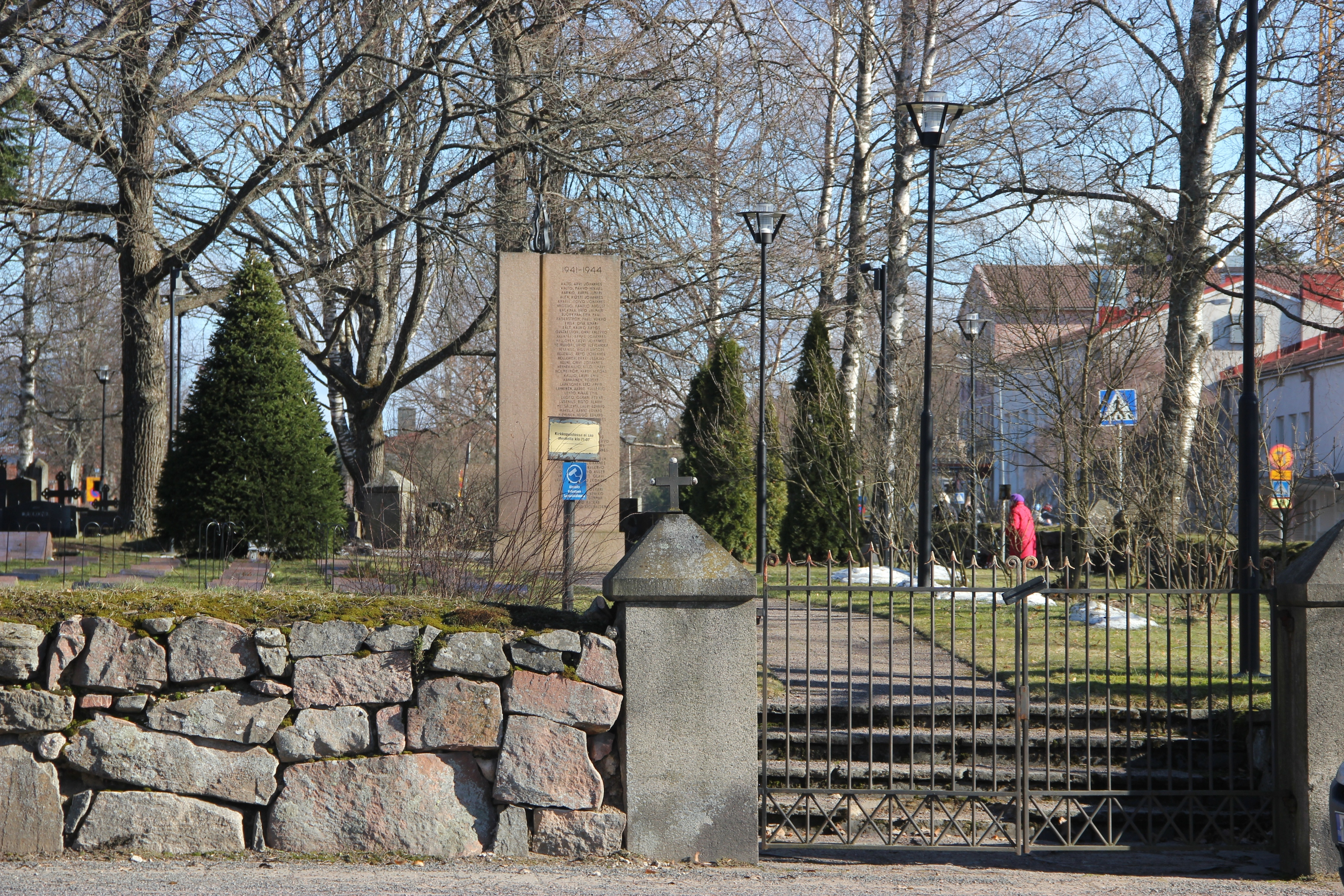 Karkkila Church, the south-western gate and the military cemetary at the church in Karkkila New Cemetery